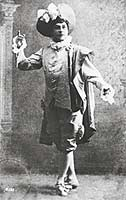 19th-century photo of Paul Gerdt